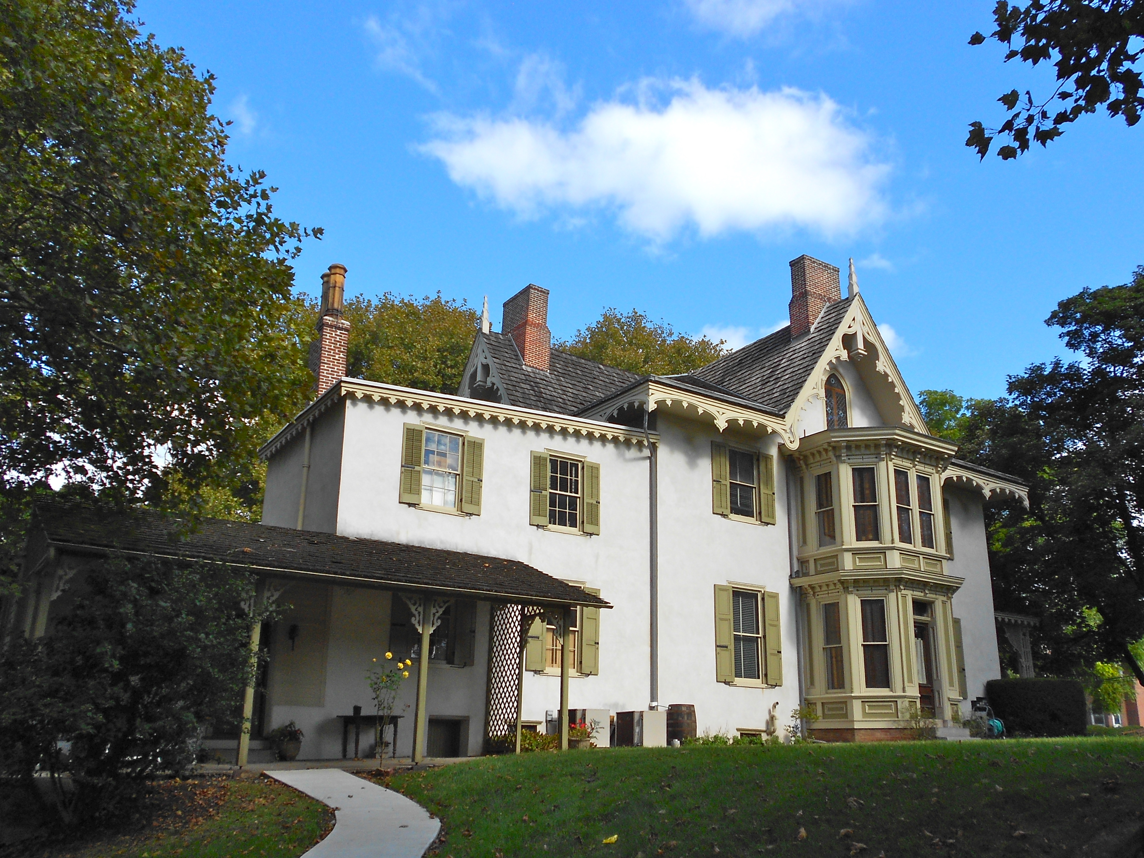 Terracina added to the NRHP on December 13, 1978. At 76 South 1st Avenue, Coatesville, Chester County, Pennsylvania. Also part of the Lukens Historic District a National Historic Landmark district.